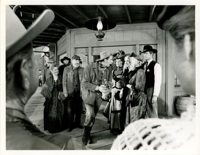 Photo from the television program Pistols 'N' Petticoats. In this scene, the town drunk raises a stir with the Hanks family while the sheriff looks on.